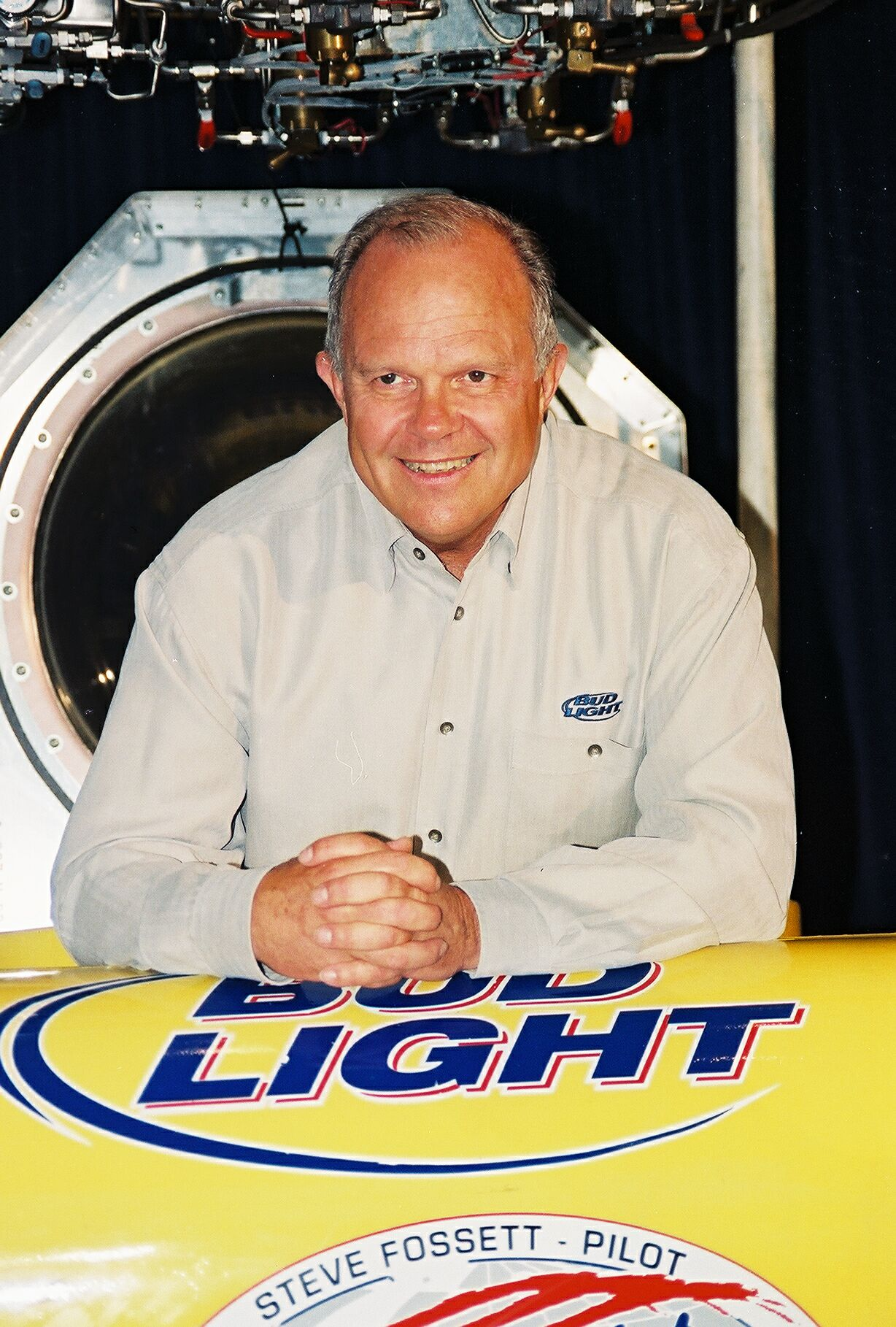 Steve Fossett Smithsonian air and space Sept 10, 2002 Wash D.C.